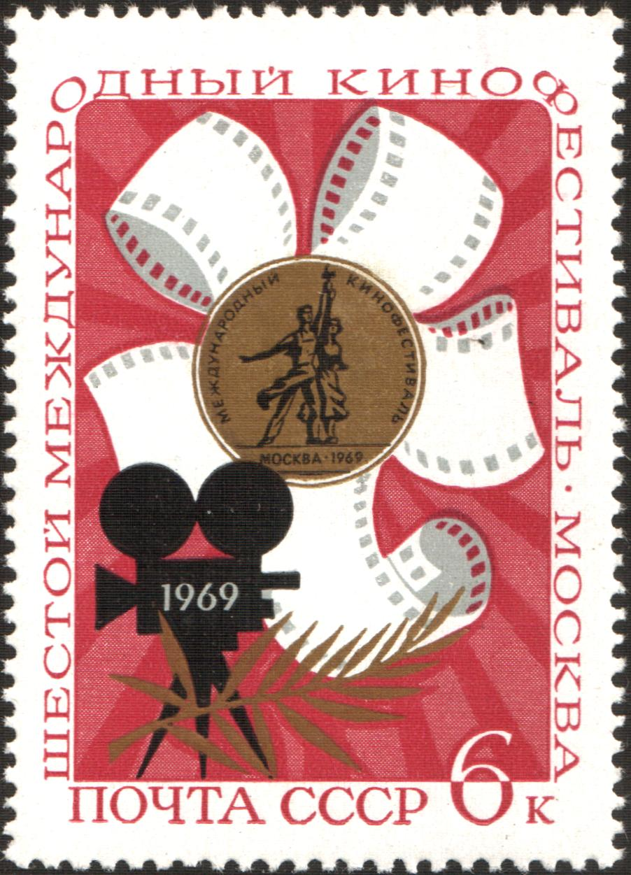 USSR stampː Film, Camera and Medal. Seriesː 6th Moscow International Film Festival (07-22.07)